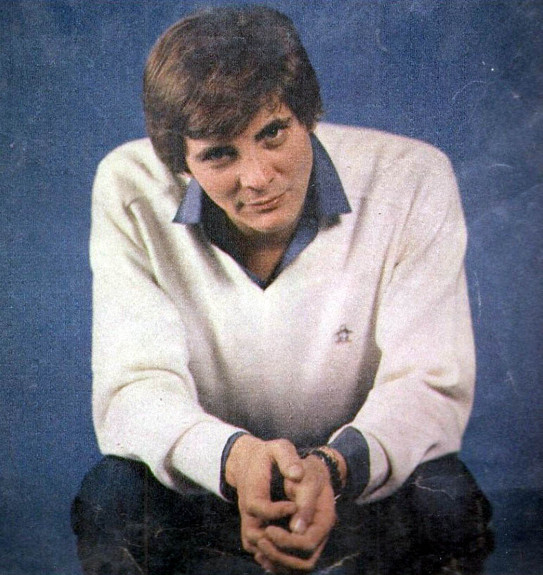 Cludio Levrino- actor argentino